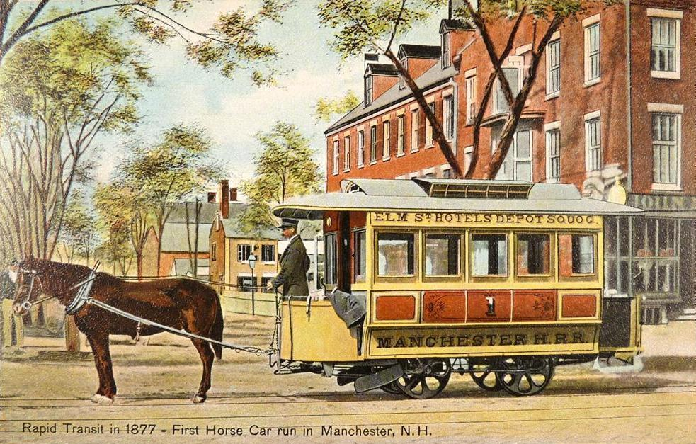 Illustration with the legend "Rapid transit in 1877" - First horsecar run in Manchester, New Hampshire".